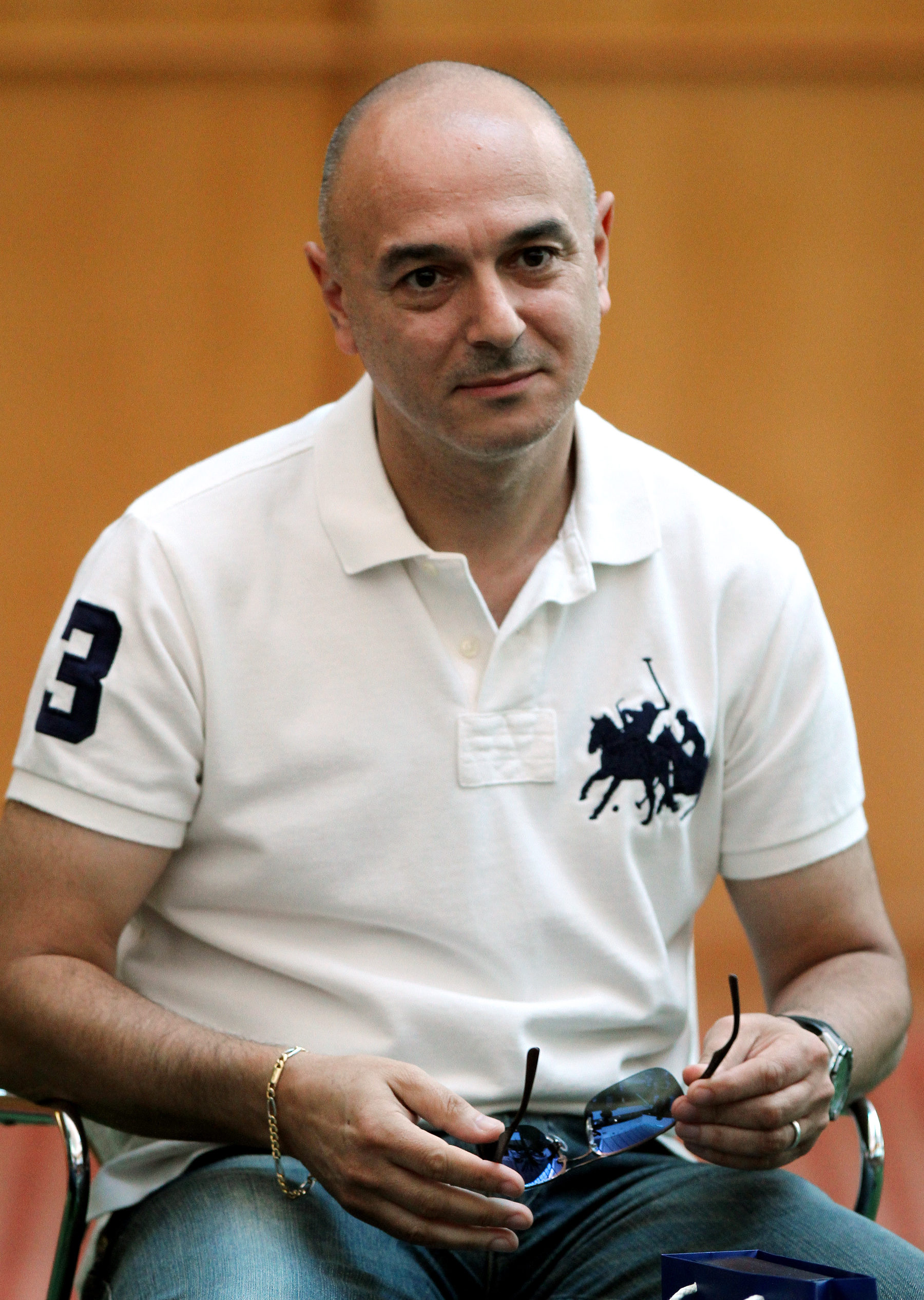 Tottenham Hotspur Chairman Daniel Levy during a visit to the Qatar's ASPIRE Academy. Picture by Vinod Divakaran